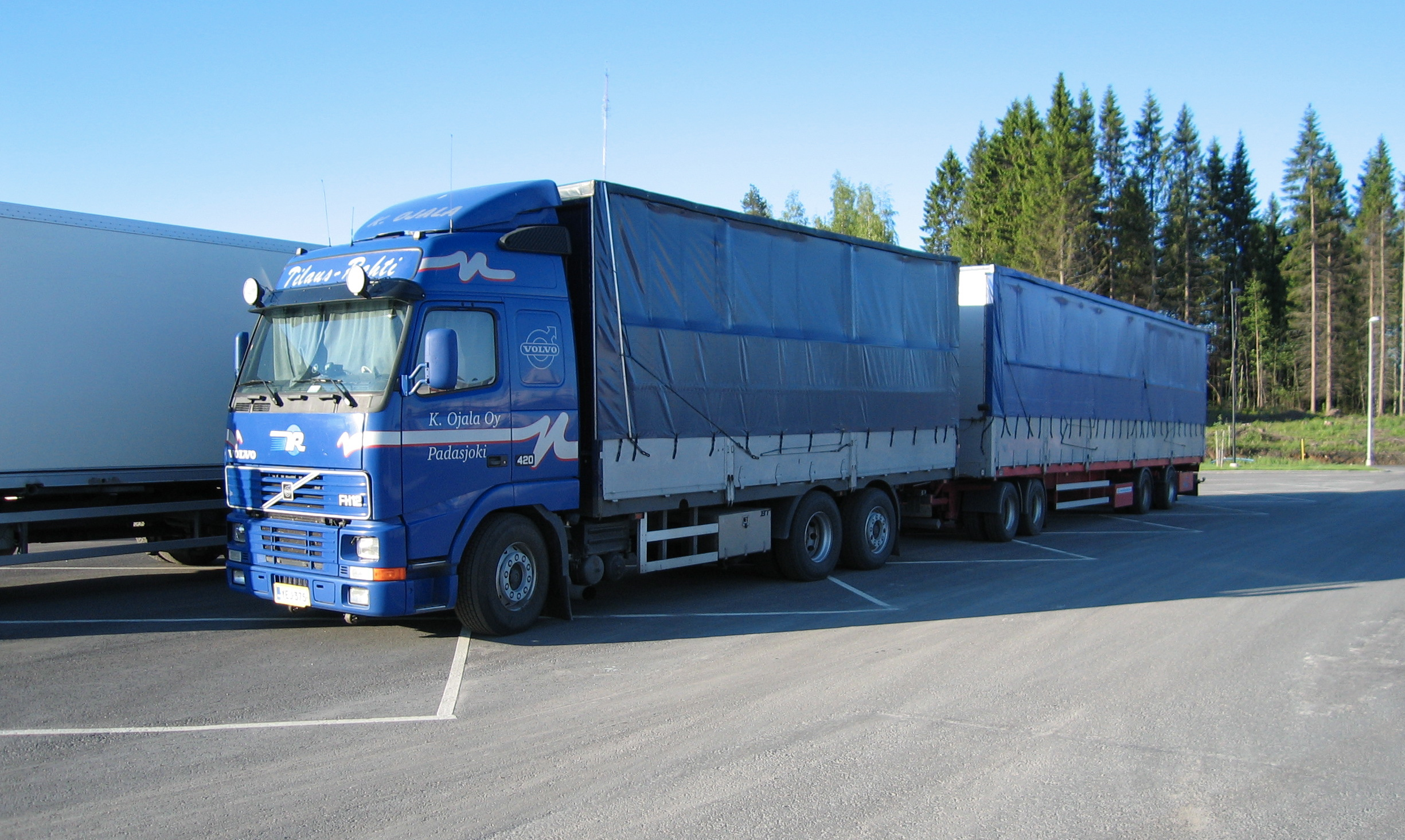 Finnish plate Volvo FH12 rigid truck coupled to A-frame drawbar trailer (full trailer in US). Truck has 420hp engine and is equipped with 6x2 driveline with liftable tag axle to reduce tyre wear and to increase grip when running light or empty. Photograph is taken at Lappeenranta, Finland at morning while driver was still sleeping in a truck.